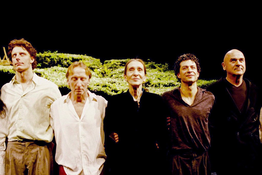 Pina Bausch (in the middle) with her dancers at the Wiesenland show.